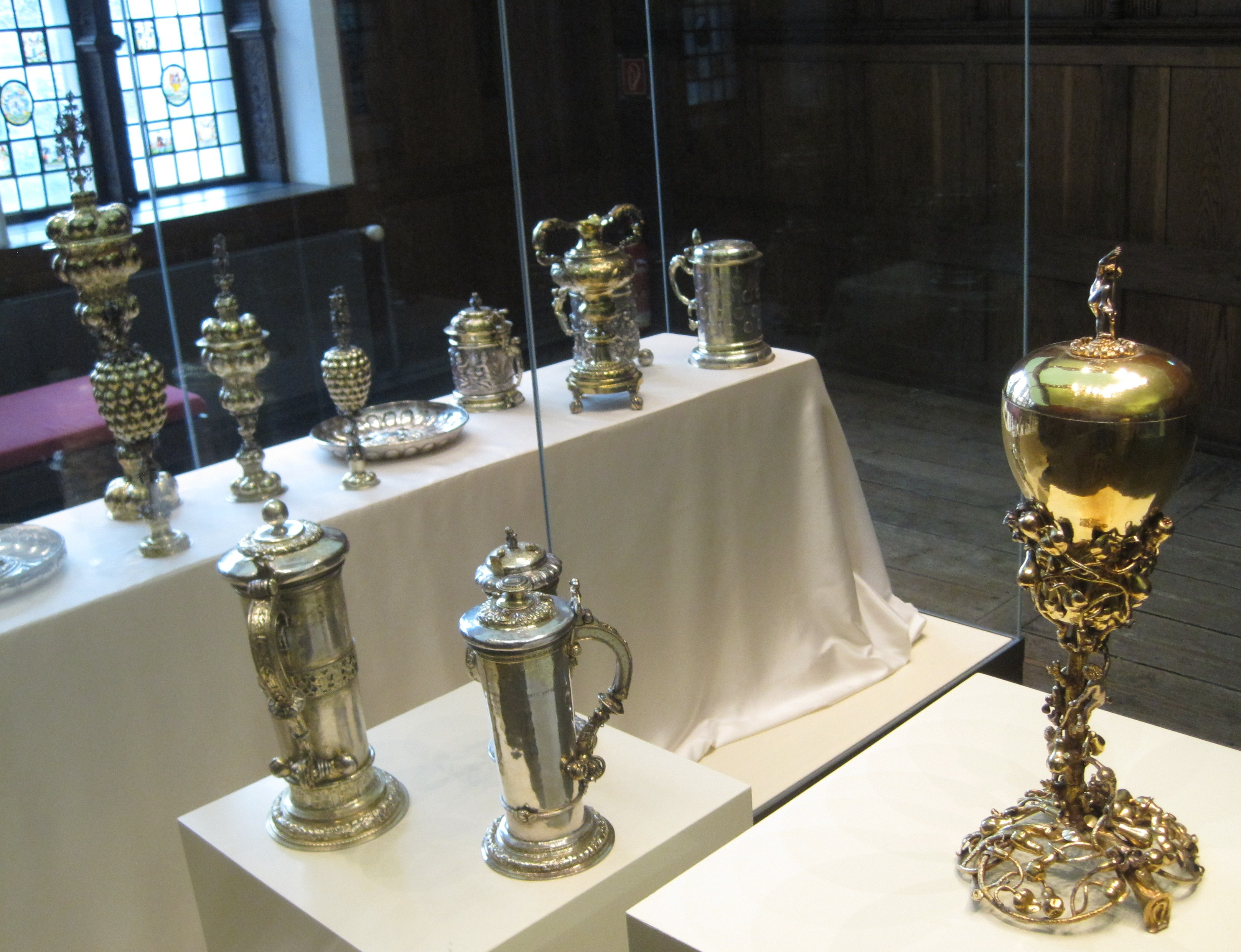 Collection of silver ware in Lübeck's St. Annen Museum